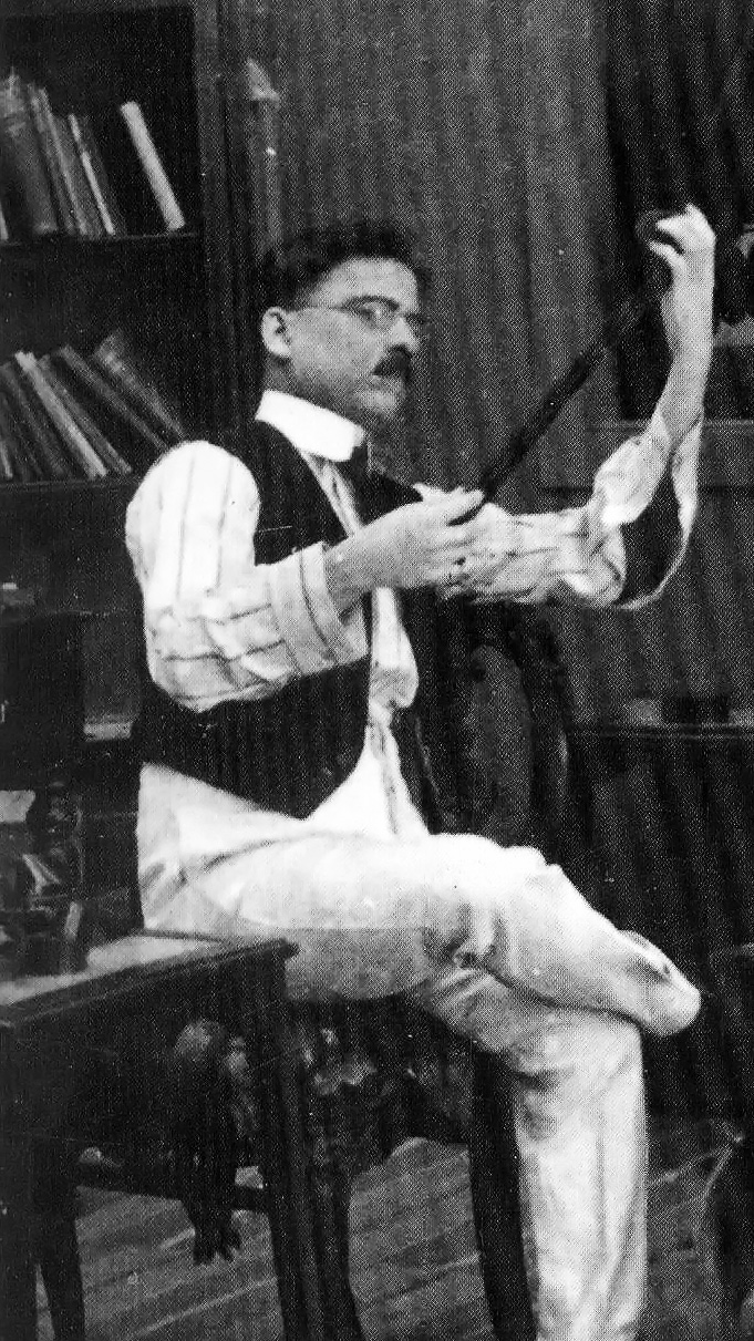 DADA SAHEB PHALKE (April 30, 1870 - February 16, 1944)- was an Indian producer-director-screenwriter, known as the father of Indian cinema. Starting with his debut film, Raja Harishchandra 1913, now known as India's first full-length feature, he made 95 movies and 26 short films in his career span of 19 years, till 1937.